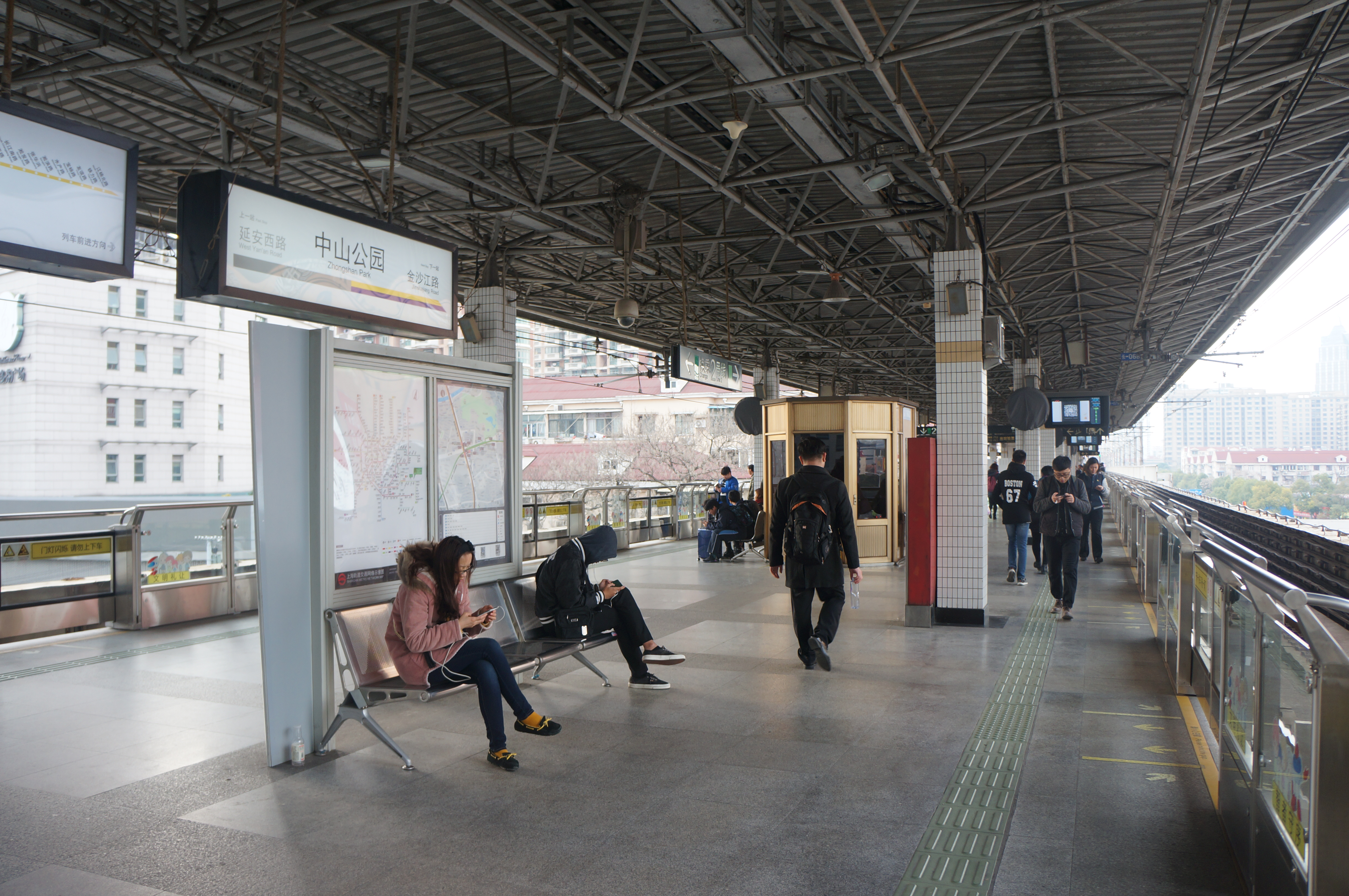 201703 Platform for L3, 4 of Zhongshan Park Station, I always ride the train for opposite direction here.